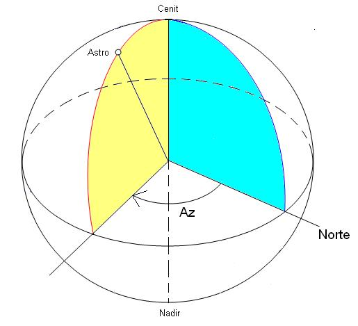 graphic about circular azimuth